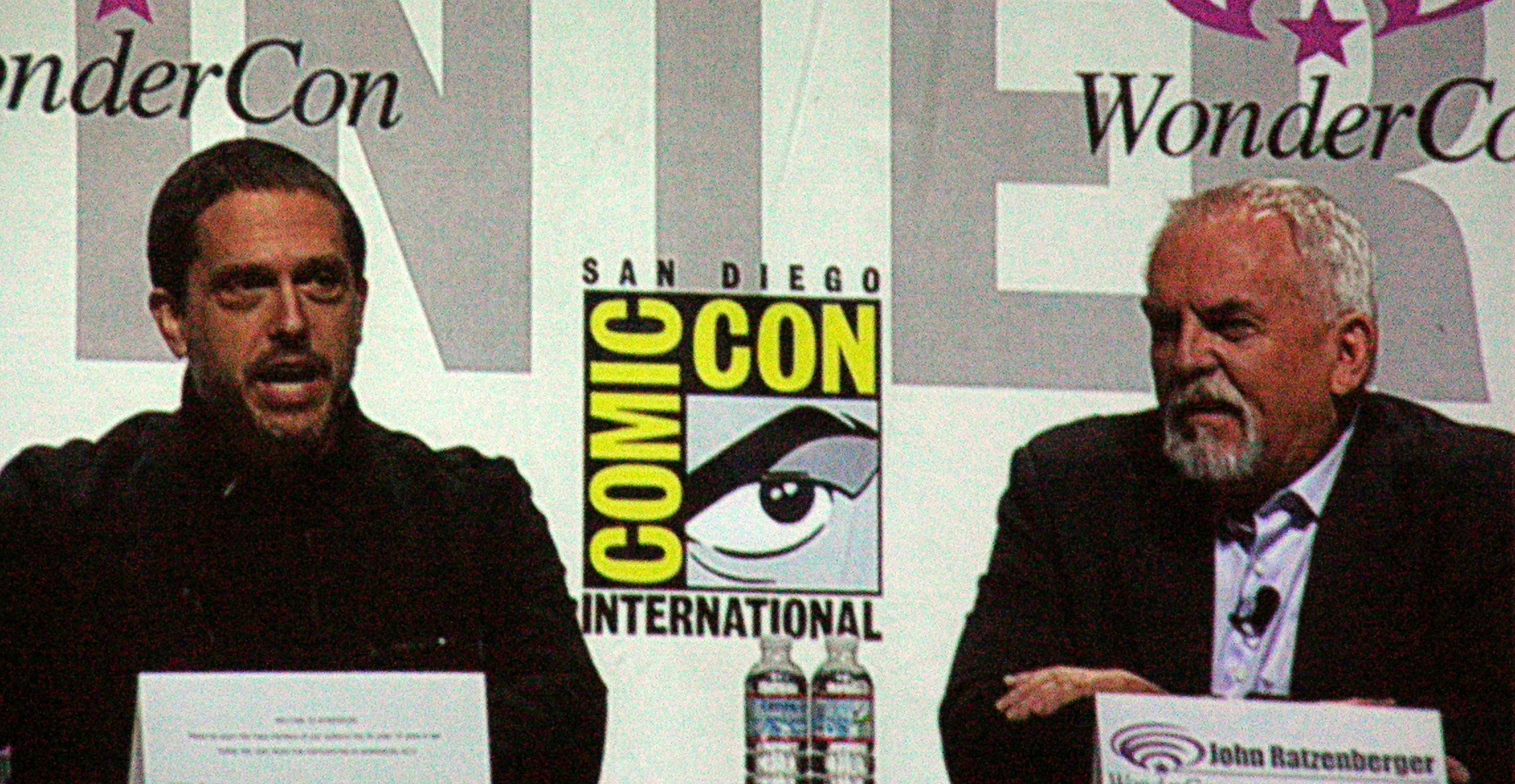 Director Lee Unkrich and actor John Ratzenberger participating in the Toy Story 3 panel at WonderCon 2010.